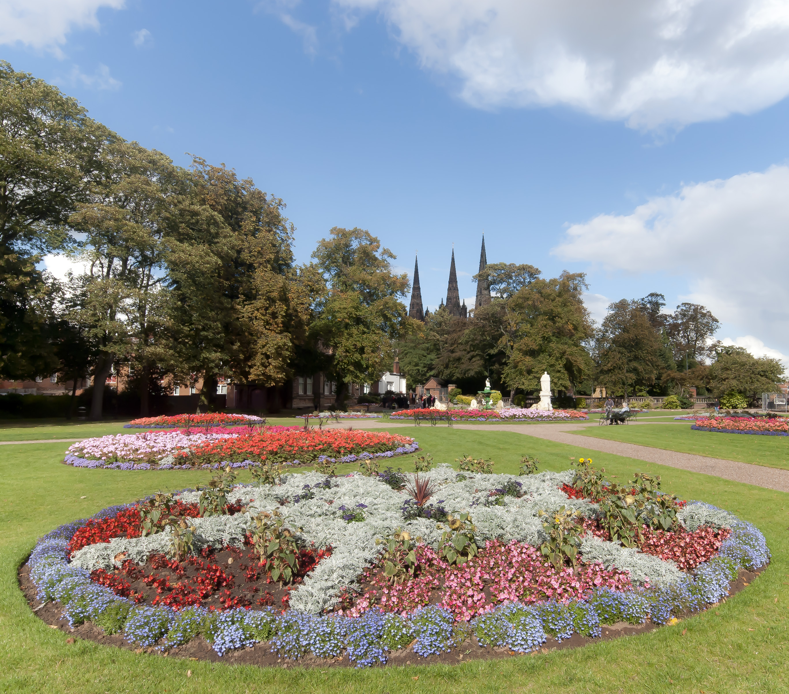 Museum Gardens in Beacon Park, Lichfield, Staffordshire, UK in September 2011.